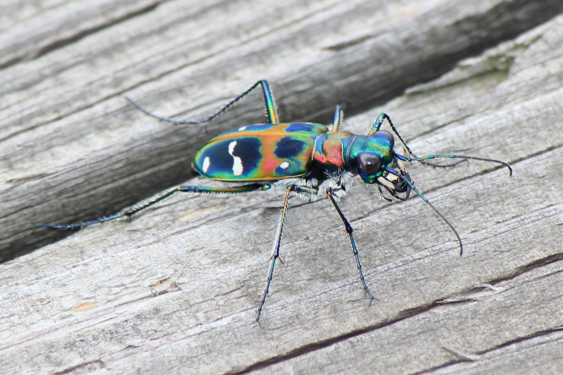 Cicindela chinensis japonica, in Mount Gozaisho ,Japan